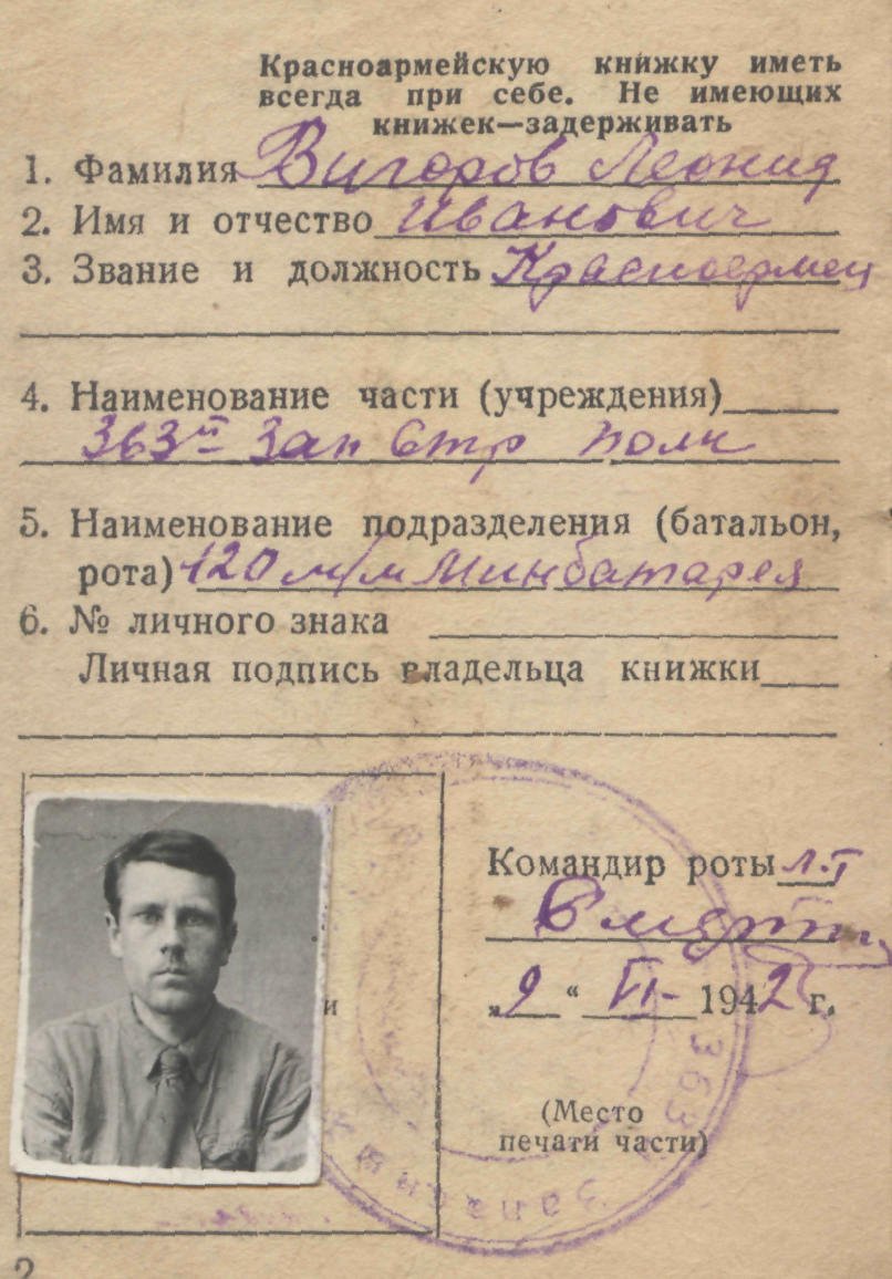 Russian scientist Vigorov, Leonid Ivavovich during World War II (1942). ID soldier